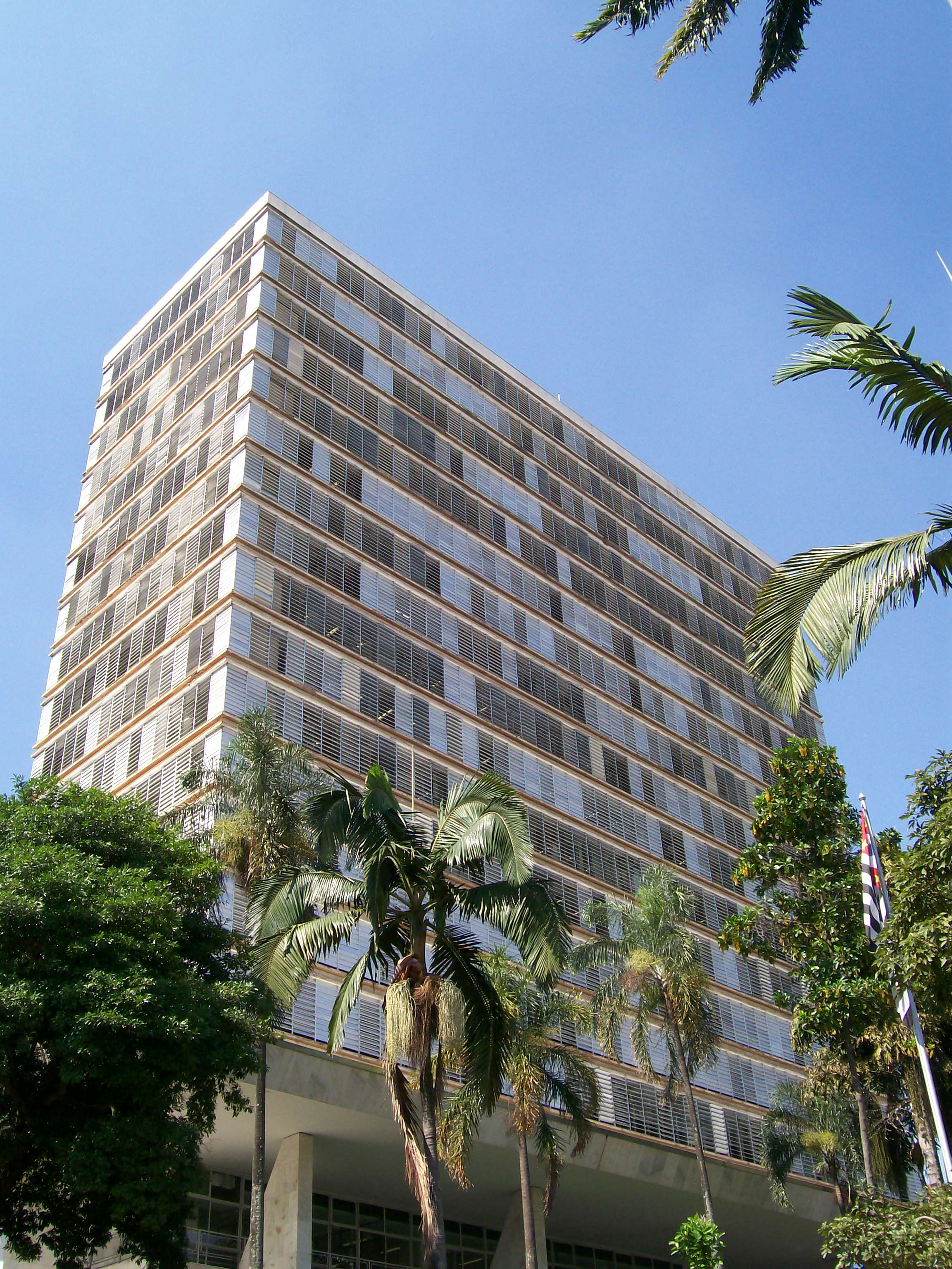 Palácio dos Jequitibás as seen looking up from Anchieta Avenue. Campinas, Brazil